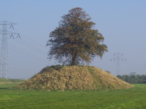 Vliedberg t'Hof Blaemskinderen is a vliedberg (Motte-and-bailey) near the village of s'Gravenpolder. The vliedberg is topped with a linden tree.